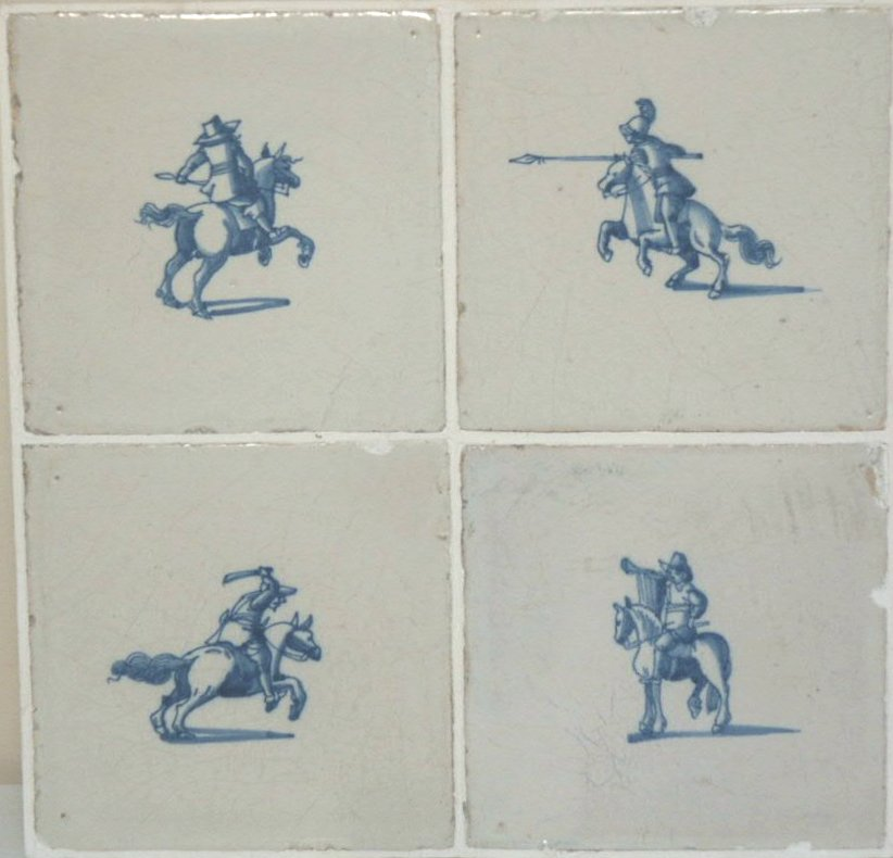 Decorated tiles showing armoured soldiers on horseback.